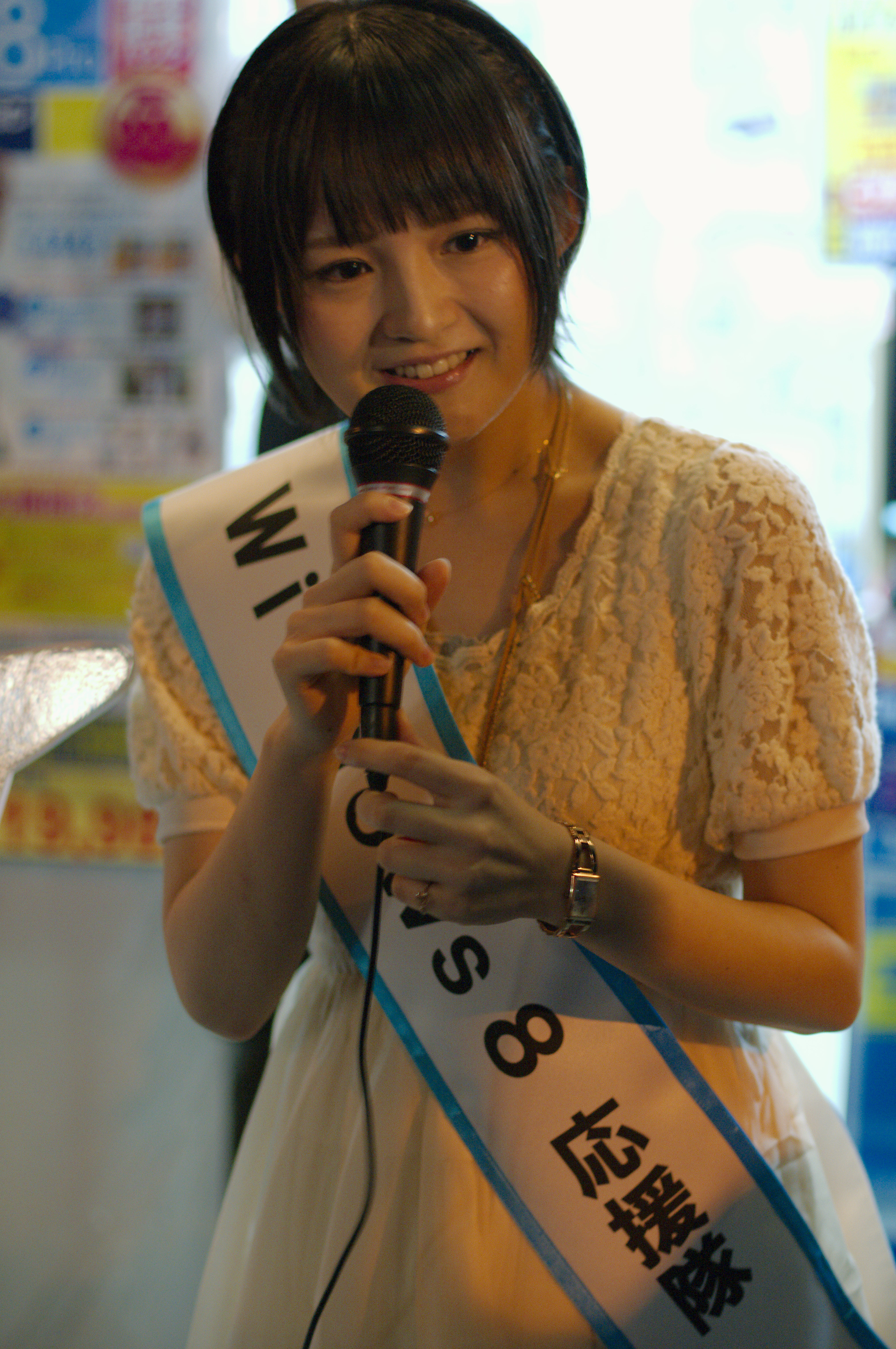 Japanese voice actress Asuka Nishi at a Microsoft Windows 8 launch event in Akihabara, Tokyo, Japan